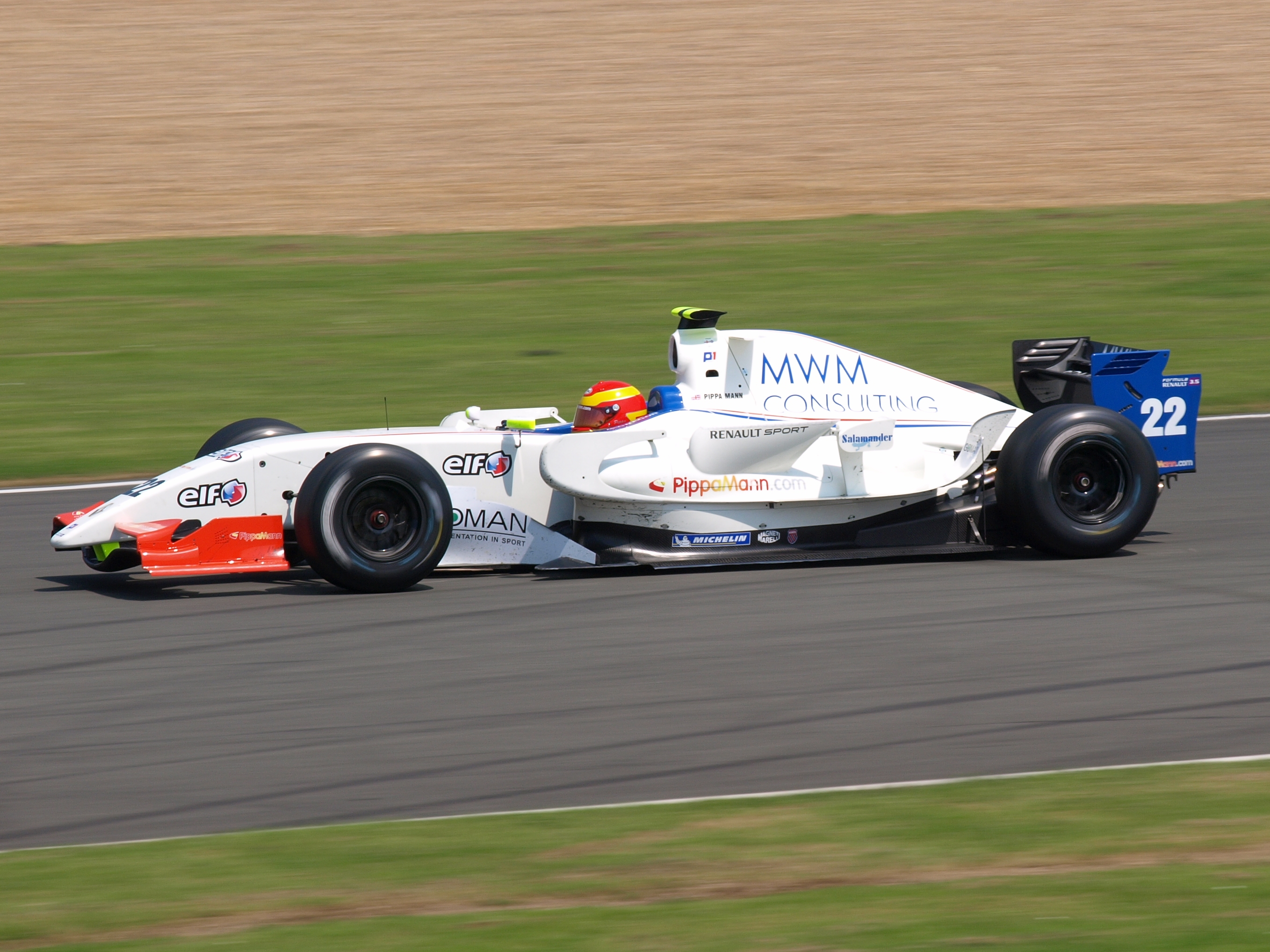 Pippa Mann driving for P1 Motorsport at the Silverstone round of the 2008 World Series by Renault season.